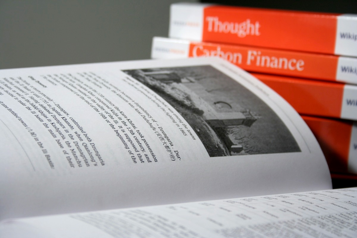 Photos displaying what books printed by PediaPress look like. Wiki to print is enabled by the Book Extension.